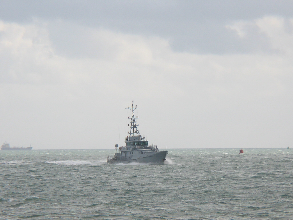 UK Customs cutter HMC (new prefix, formerly HMCC, HMRC) Valiant at 2 miles distant, inbound in choppy sea in the Solent, to Portsmouth Naval Base, UK, 23rd October 2008. Image produced by George.Hutchinson from a photograph taken and supplied by Brian Burnell. The photograph should be attributed to Brian Burnell.